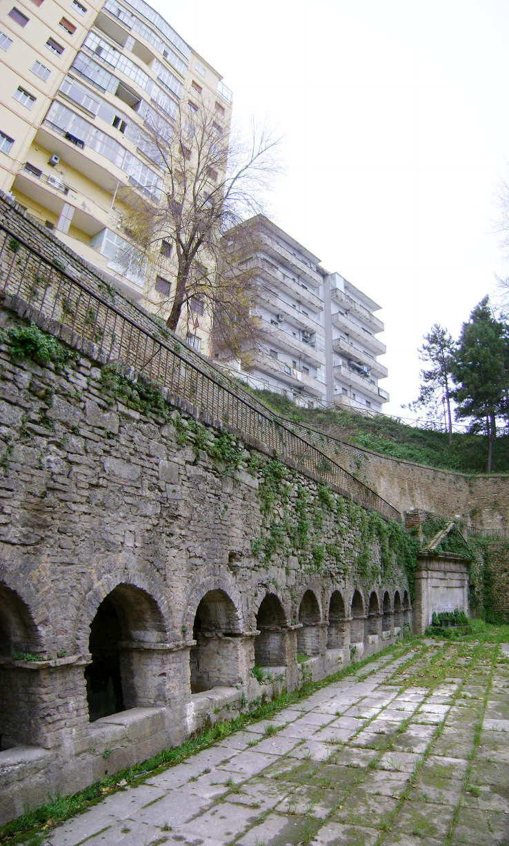 The Fonte del Borgo Lanciano, province of Chieti, Abruzzo